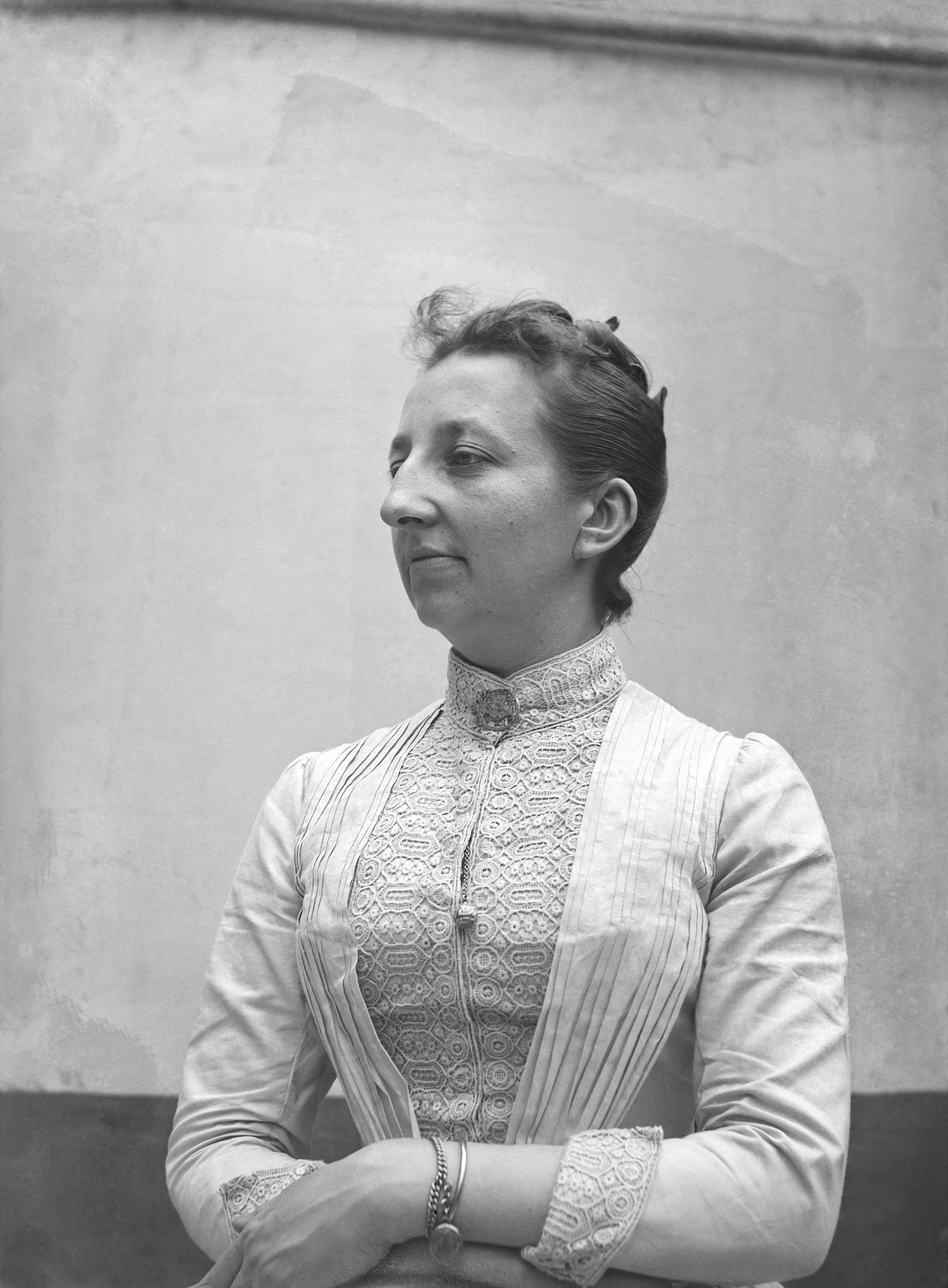 Portrait of Leonie La Fontaine, sister of Henri La Fontaine